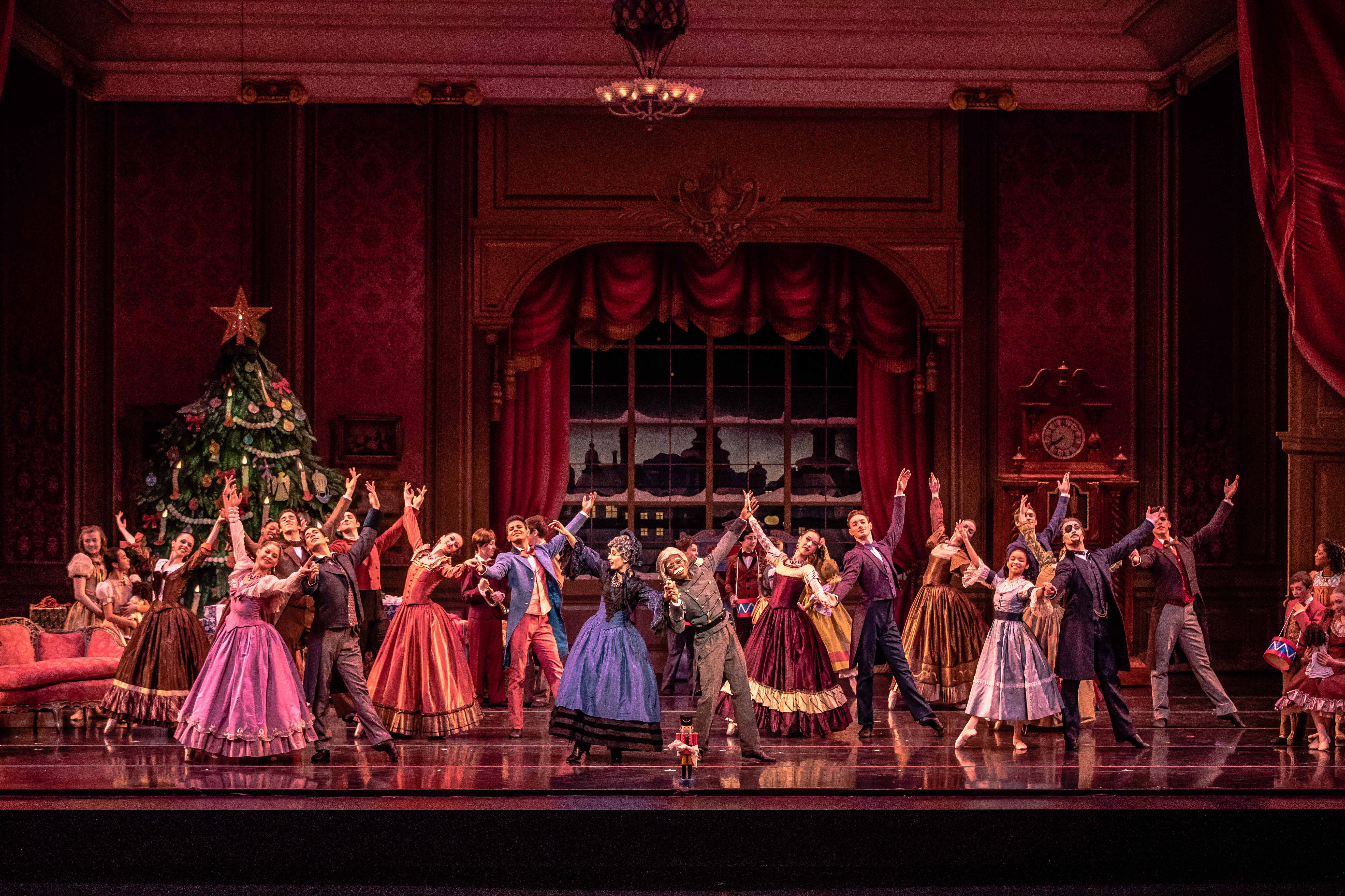 KCB Dancers. Photography by Brett Pruitt & East Market Studios.